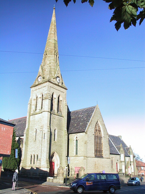 St Mark's parish church, Glodwick Road, Glodwick, Oldham. Greater Manchester, seen from the southeast